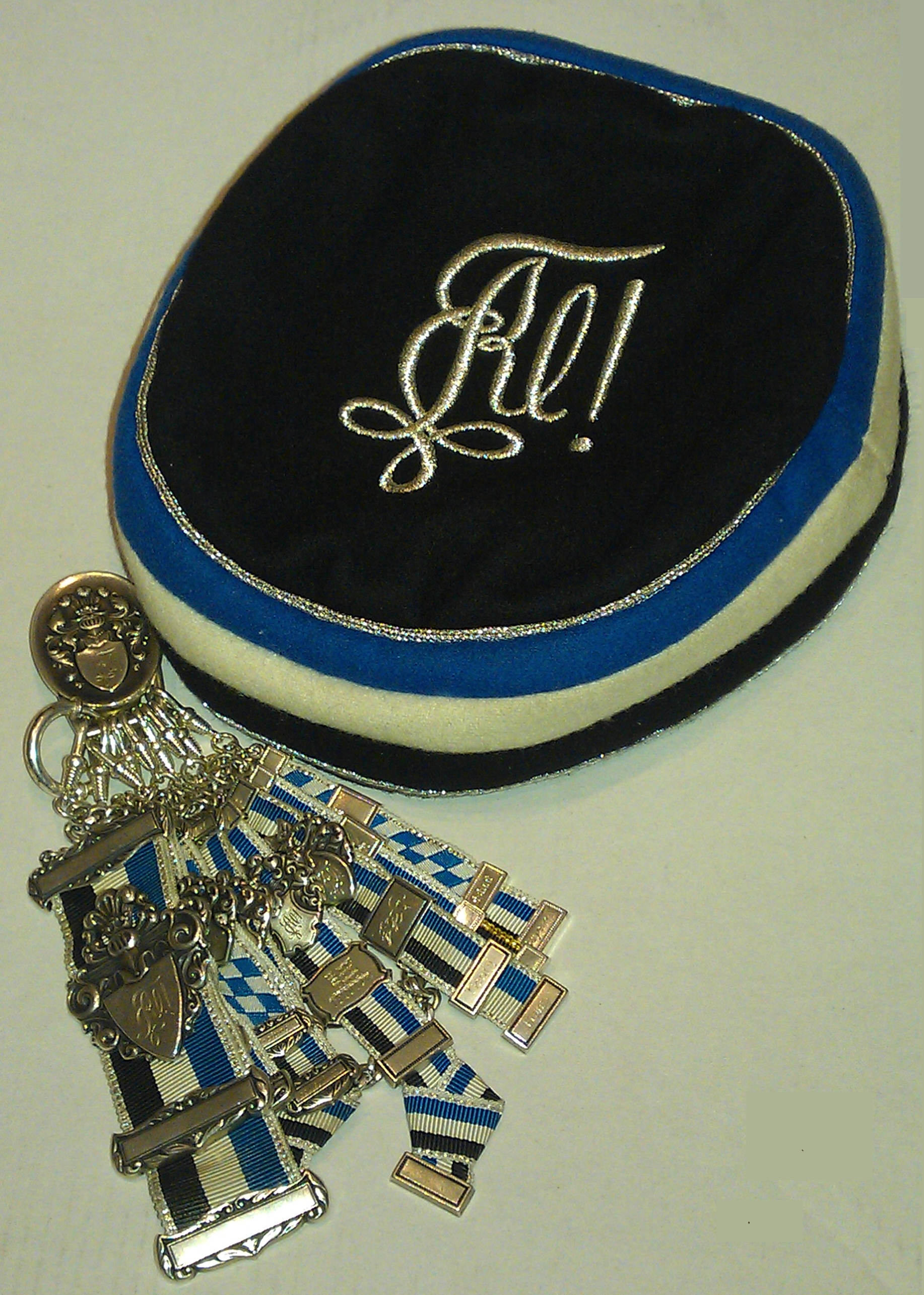 Couleur of the German fraternity K.S.St.V. Alemmania München